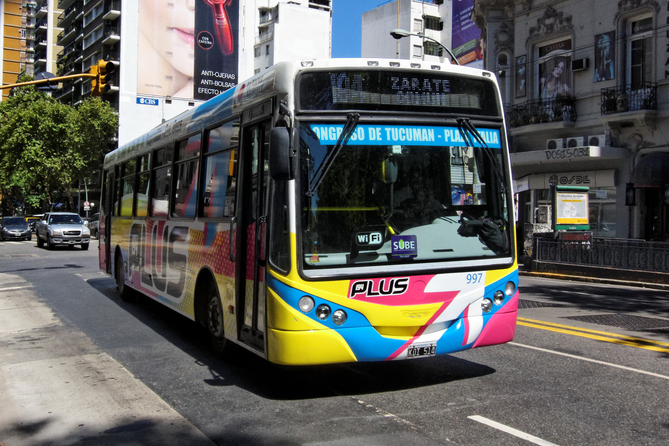 Metalpar Iguazú II bus (reg. KDI 514, #997) with Mercedes-Benz OH 1618 L-SB chassis in Buenos Aires, Argentina. Colectivo, line 194 Plus, PLUS (La Nueva Metropol S.A.) operator.